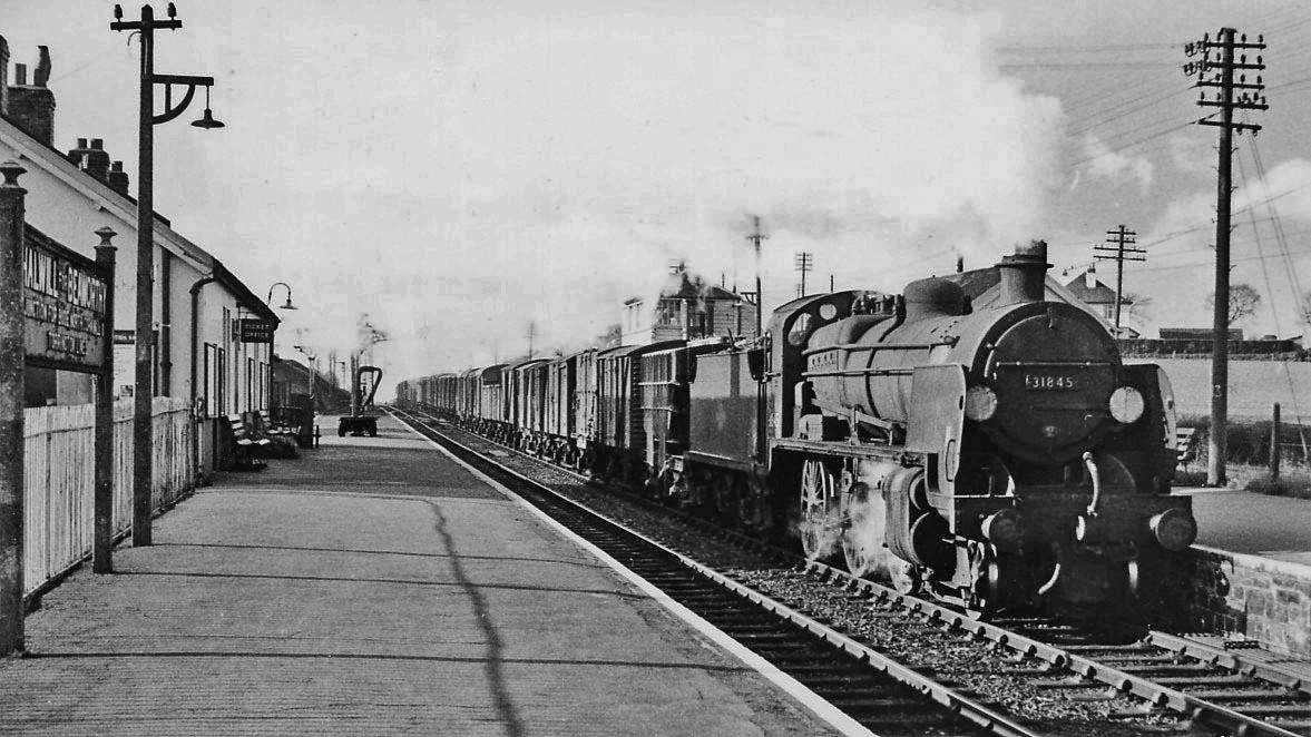 Halwill Junction station, with Up freight. View northward, towards Wadebridge and Padstow on the ex-LSW North Cornwall line, also the branches to Bude and to Torrington. The train is headed for Okehampton and Exeter, hauled by SR Maunsell N class 2-6-0 No. 31845 (built 9/24, withdrawn 9/64).